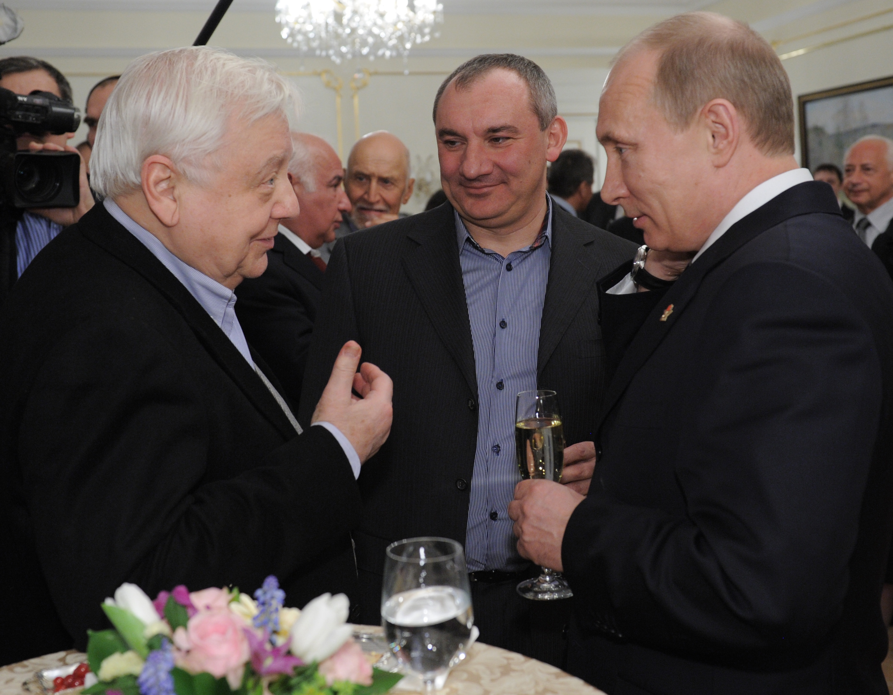 Vladimir Putin, Artistic Director and Director of the Moscow Art Theatre named after Chekhov Oleg Tabakov and musician and actor, director of the engineering department of the Marussia Formula-1 team Nikolai Fomenko